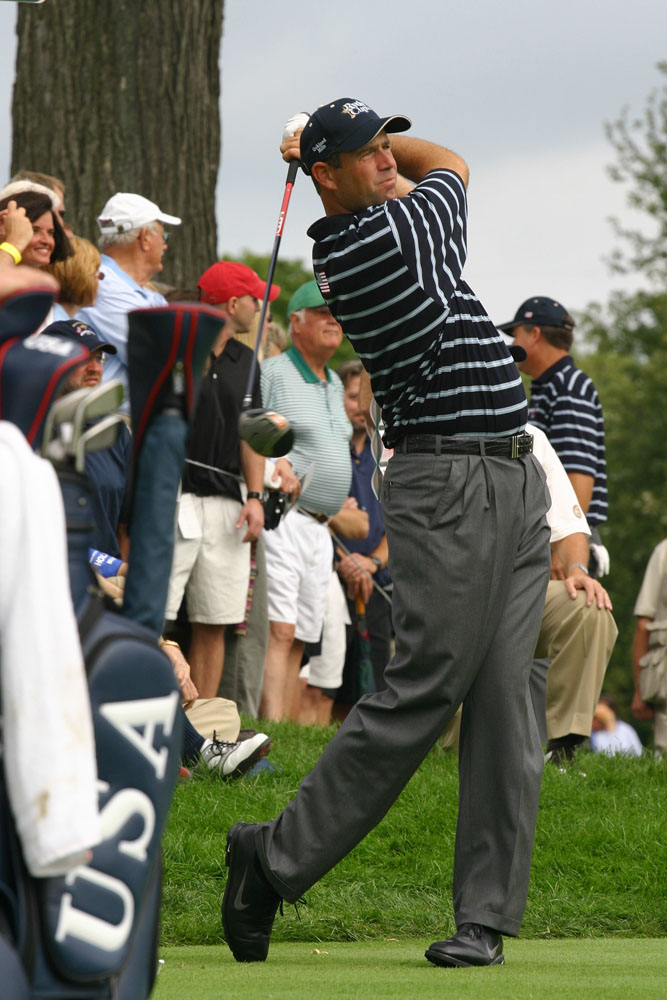 Stewart Cink practicing a day before the 2004 Ryder Cup at the Oakland Hills Country Club in Bloomfield Hills, Michigan.